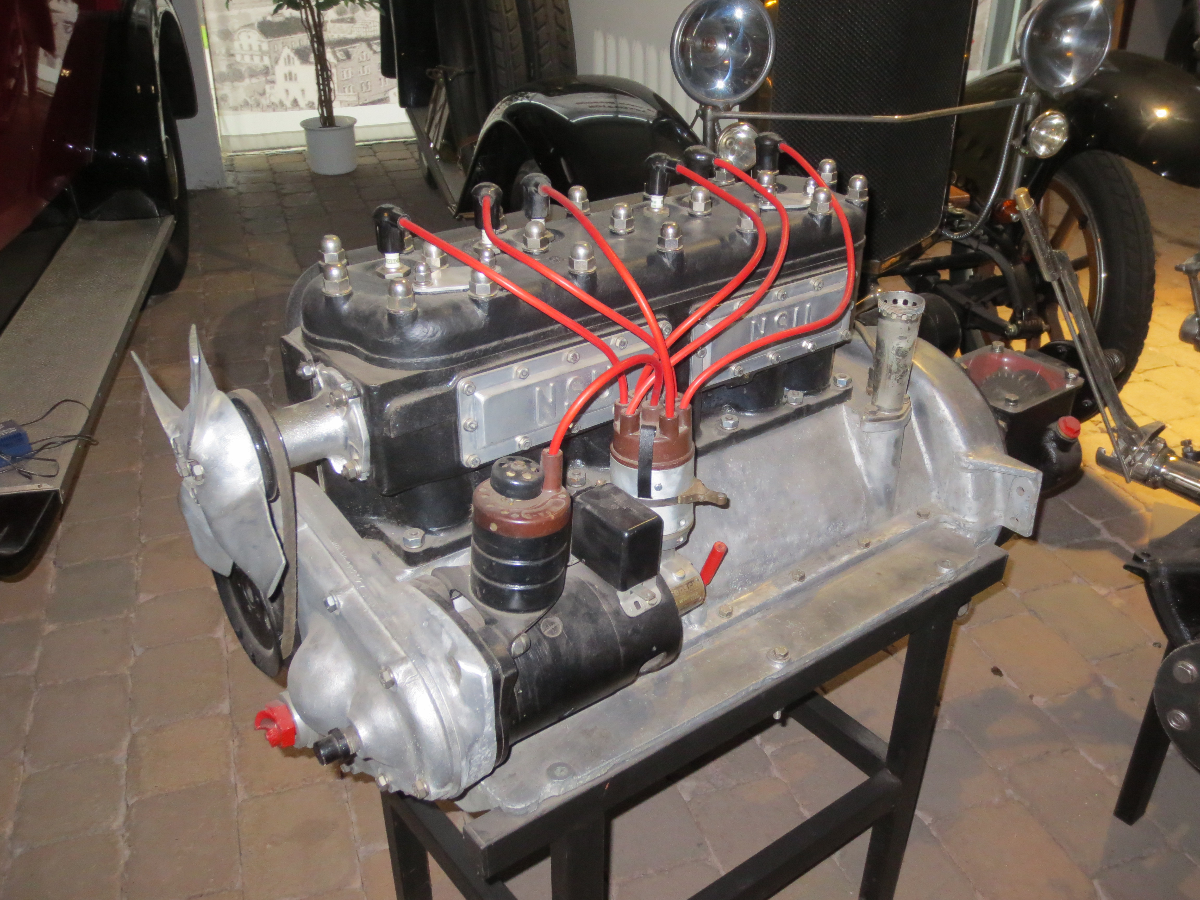 Subject: NSU 7/34 PS Author: Luc106 Date:October 10th, 2014 Place/Country: Museum Autovision, Altlußheim (Deutschland) I release all rights in the public domain. Licensing